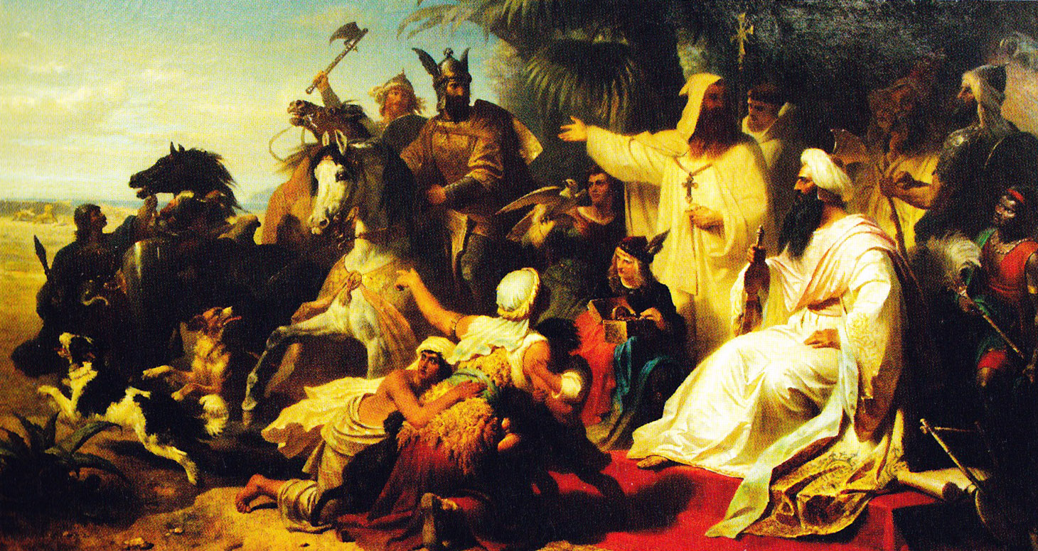 Hârûn al-Rachîd ben Muhammad ben al-Mansûr receiving a delegation of Charlemagne in Baghdad